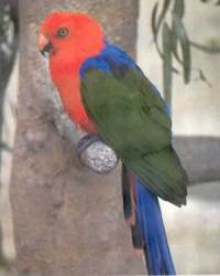 Moluccan King Parrot (Alisterus amboinensis) also known as Ambon King-parrot.